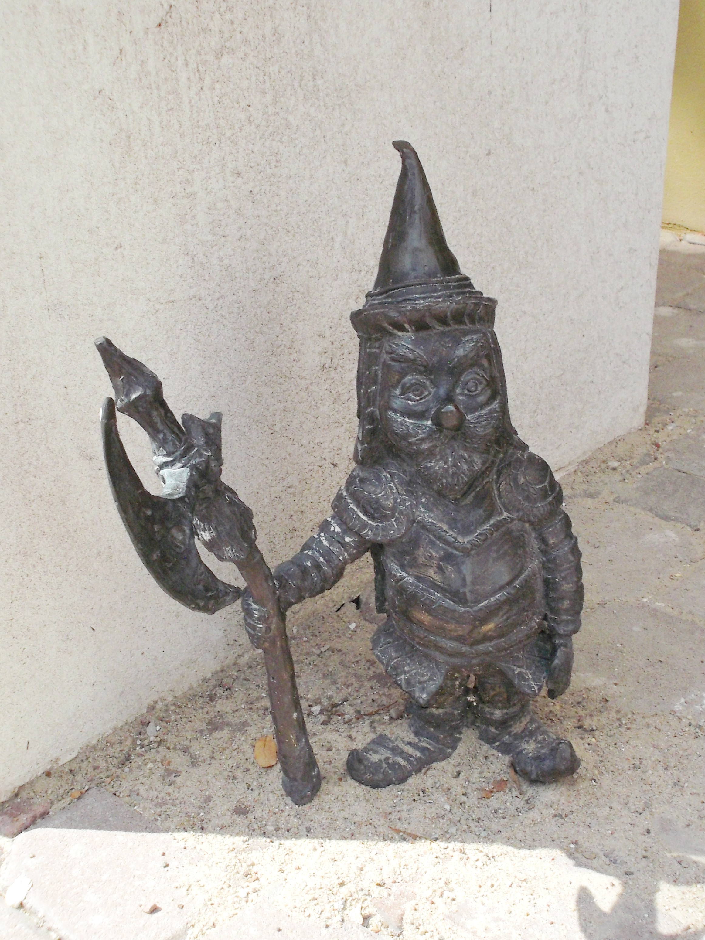 The Lane of Dwarves in Suwałki (Poland).